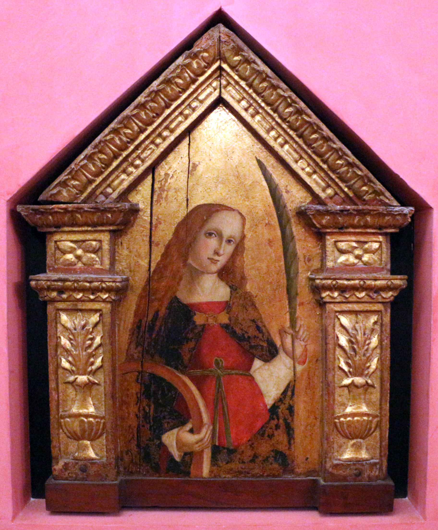 Museo Adriano Bernareggi